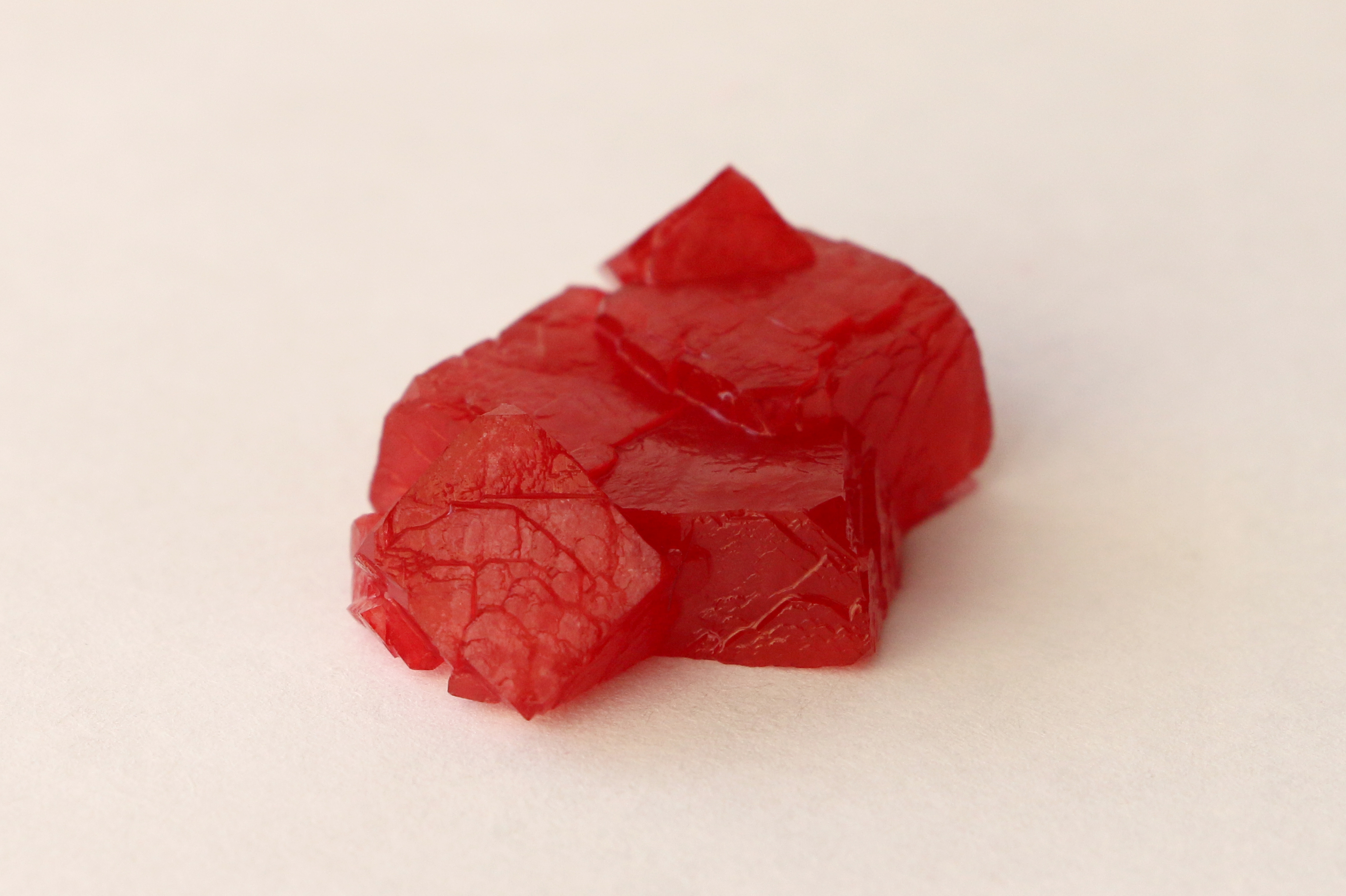 Aluminium Alum crystal. (If potassium alum, then K2SO4Al2(SO4)3·24H2O)